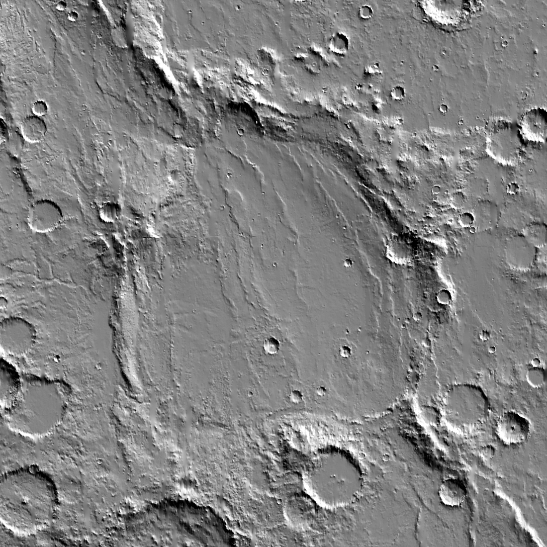 Crater Copernicus on Mars. A daytime infrared image mosaic from the Thermal Emission Imaging System (THEMIS) instrument of the 2001 Mars Odyssey spacecraft. Width of the image is 500 km.